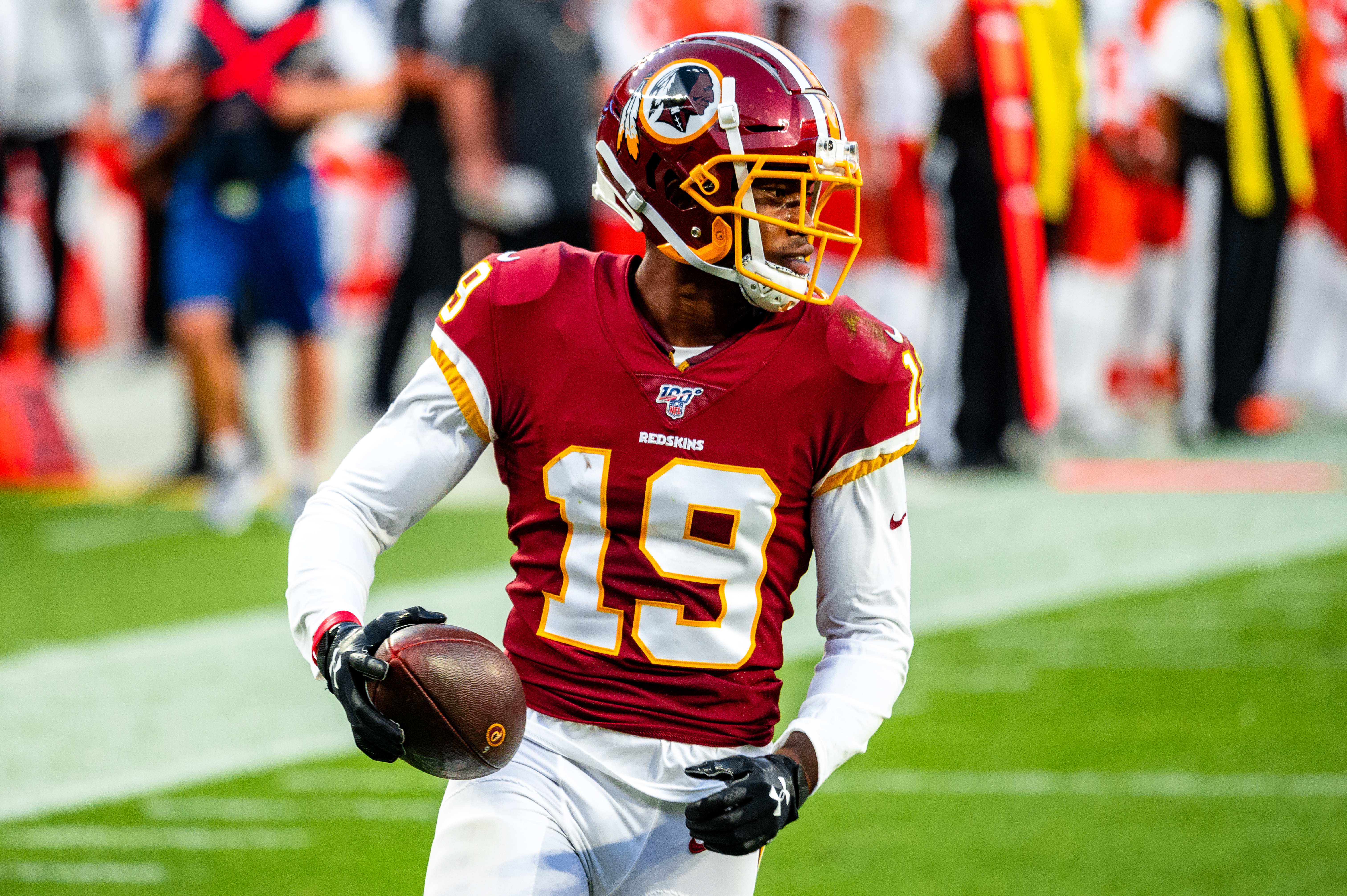 Washington Redskins wide receiver, Robert Davis, playing in a preseason game against the Cleveland Browns on August 8, 2019